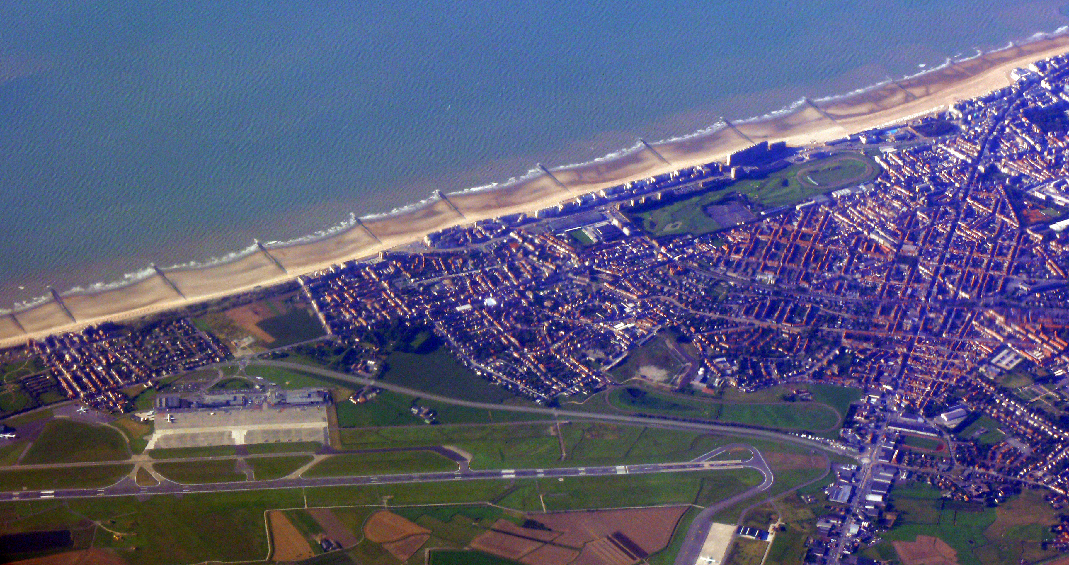 Aerial photo of Ostend-Bruges International Airport (commonly: Ostend Airport).